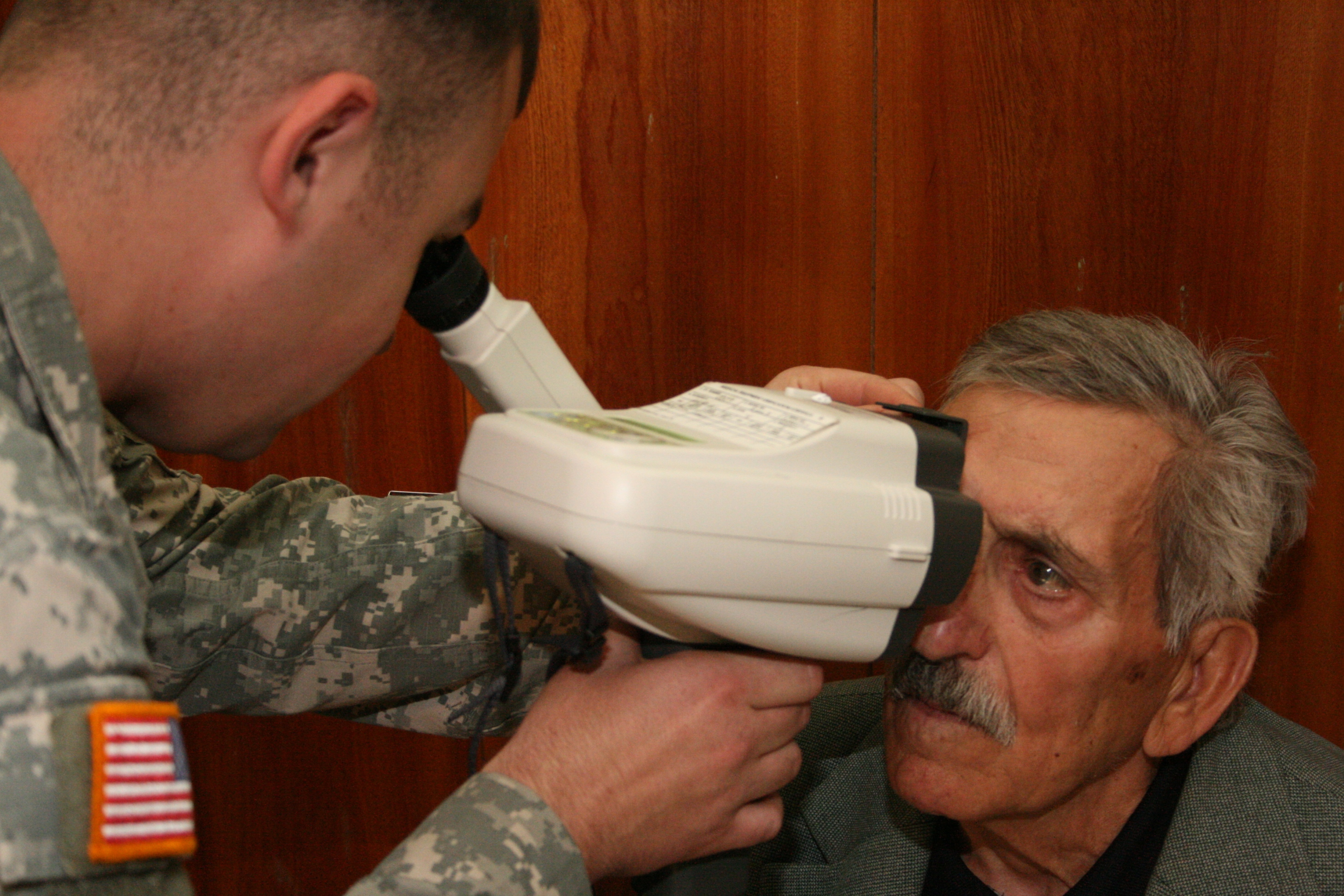 CHERNITSA, Bulgaria - U.S. Army Spc. Brandon A. Reiter, a native of Cascade, Mont., and a medic attached to the 212th Combat Support Hospital for support of a medical assistance mission, uses an auto refractor to estimate a patient's prescription on Sept. 3 at the village's cultural and community center. More than 250 pairs of eyeglasses were distributed by the optometrist and general practitioners during three-days at the village.